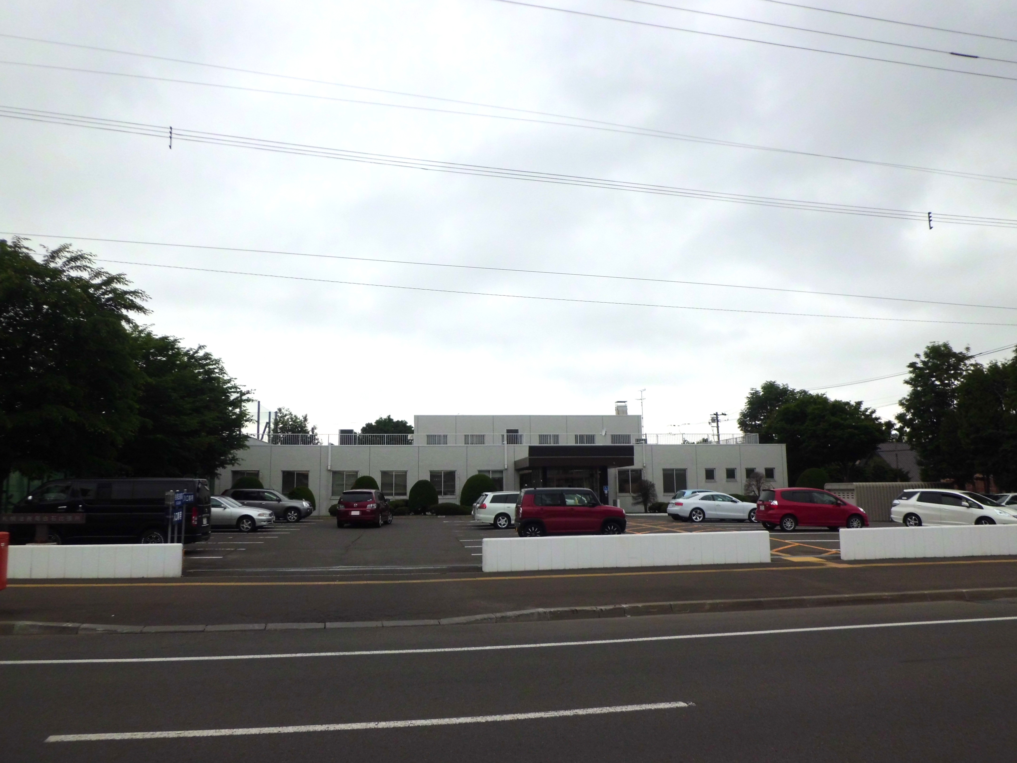 Sapporo Legal Affairs Bureau Shiroishi Branch